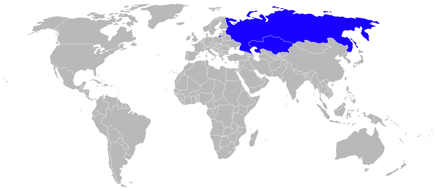 Mikoyan MiG-31 Operators 2010